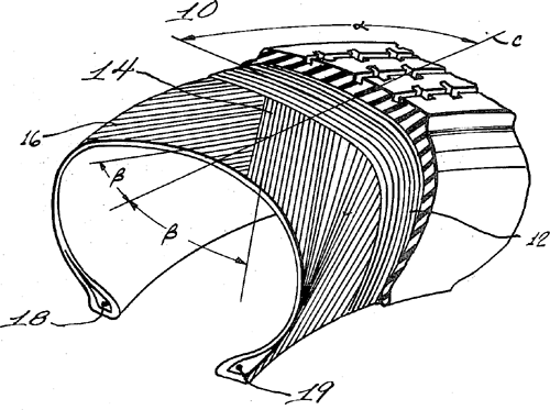 Cross-section diagram of a tire (tyre) showing the plies. Numbers 14 and 16 are bias-plies and number 12 is a radial ply.